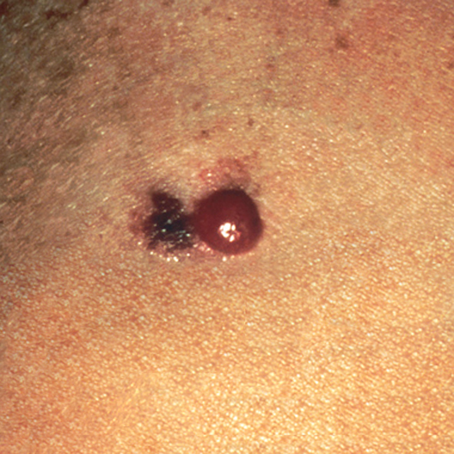 Title Melanoma Description This is advanced malignant melanoma. At the left, one can see a plaque of early, radial growth phase superficial spreading melanoma. To the right, and contiguous with the plaque, is a pink (amelanotic) nodule of deeply invasive vertical growth phase melanoma. Melanomas diagnosed at this stage have a poor prognosis; many of these patients develop metastatic disease and die from their cancer. In the majority of instances, the plaque stage of melanoma is present for a sufficient period of time to permit its diagnosis and removal before it progresses to a more advanced (and more difficult to treat) stage. Topics/Categories Anatomy -- Skin Cancer Types -- Melanoma Cancer Types -- Skin Cancer Cells or Tissue -- Abnormal Cells or Tissue Type Color, Photo Source National Cancer Institute